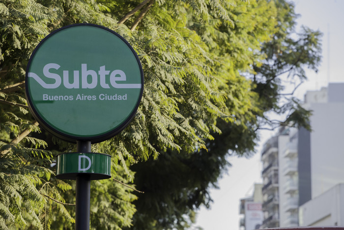 New Subte signage outside Congreso de Tucumán station on Line D of the Buenos Aires Underground.